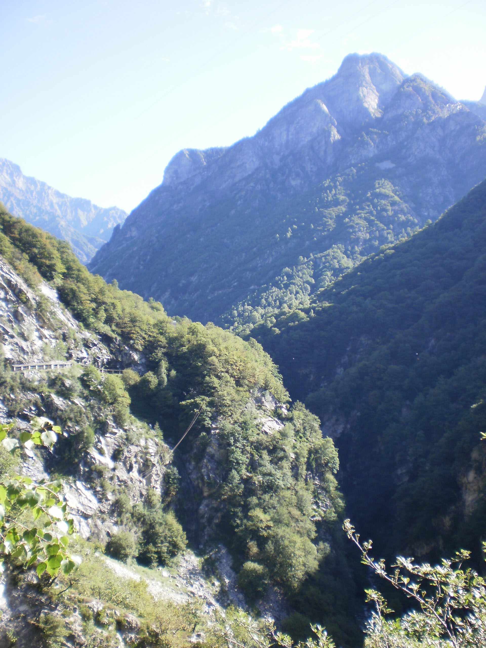 Val Codera